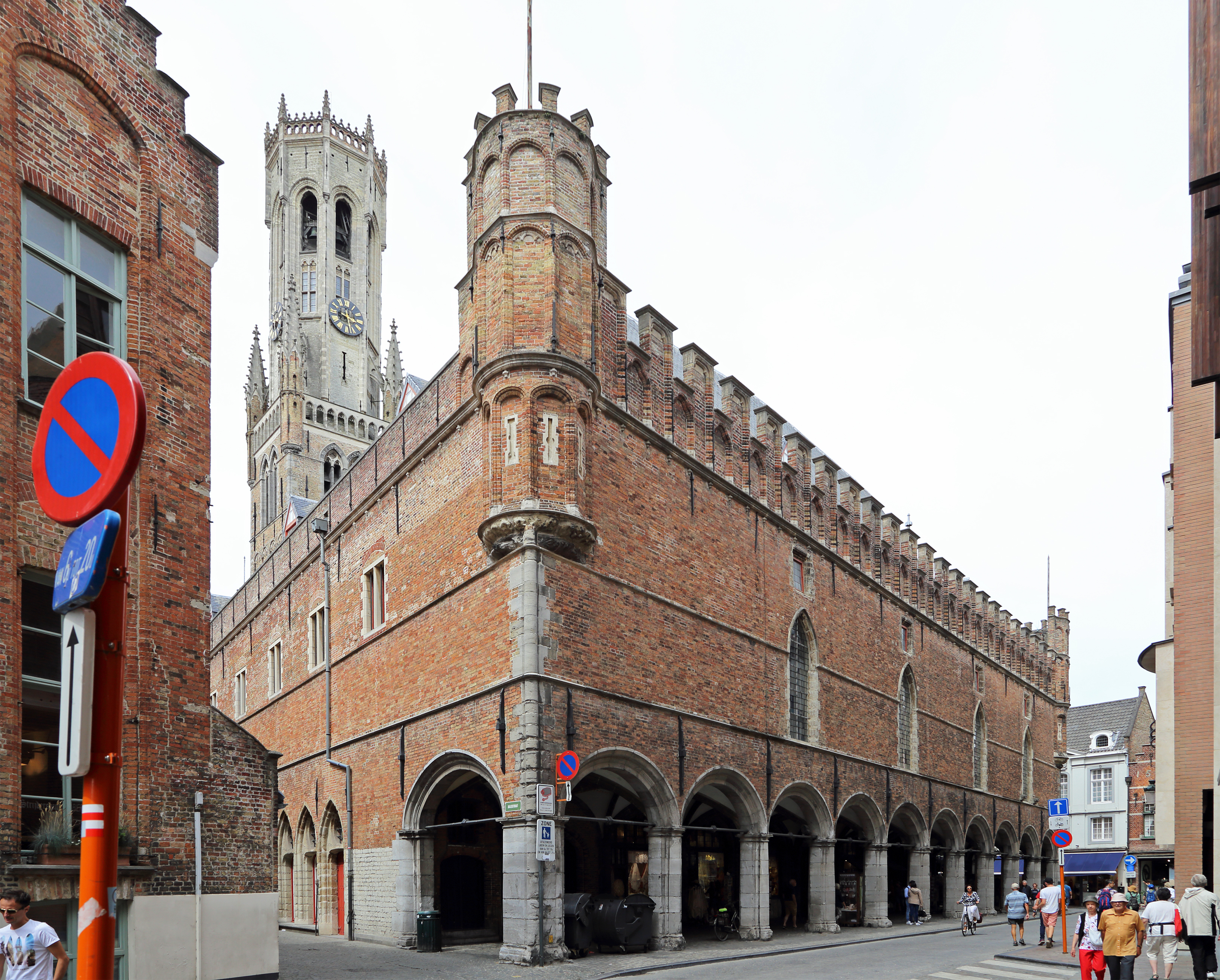 Bruges (Belgium): cloth hall